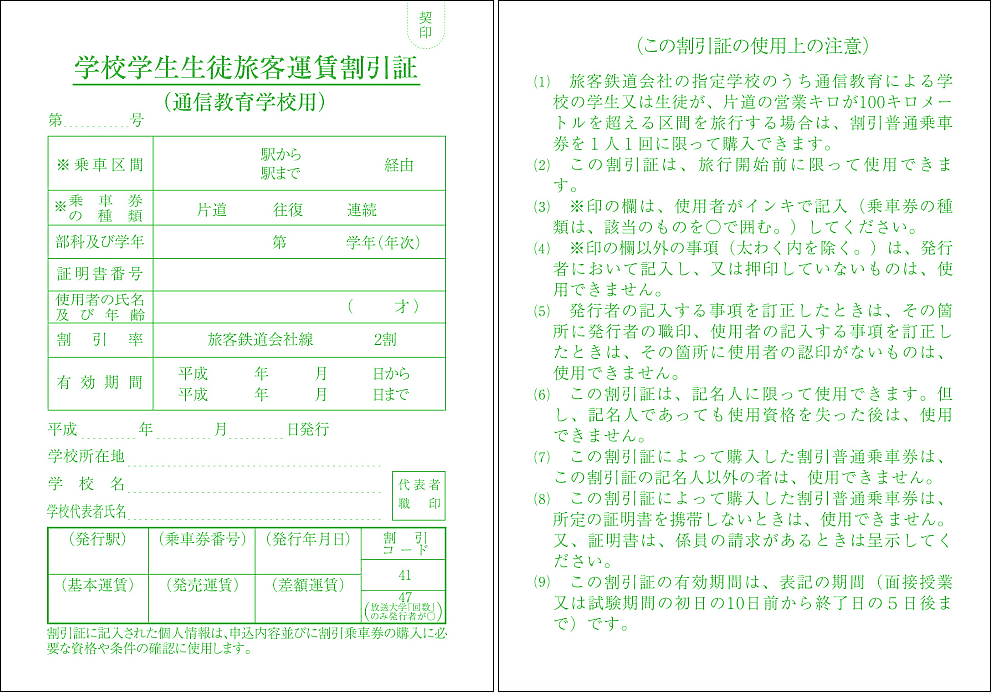 A reproduction of the student discount certificate for Correspondence education schools issued by JR passenger companies.